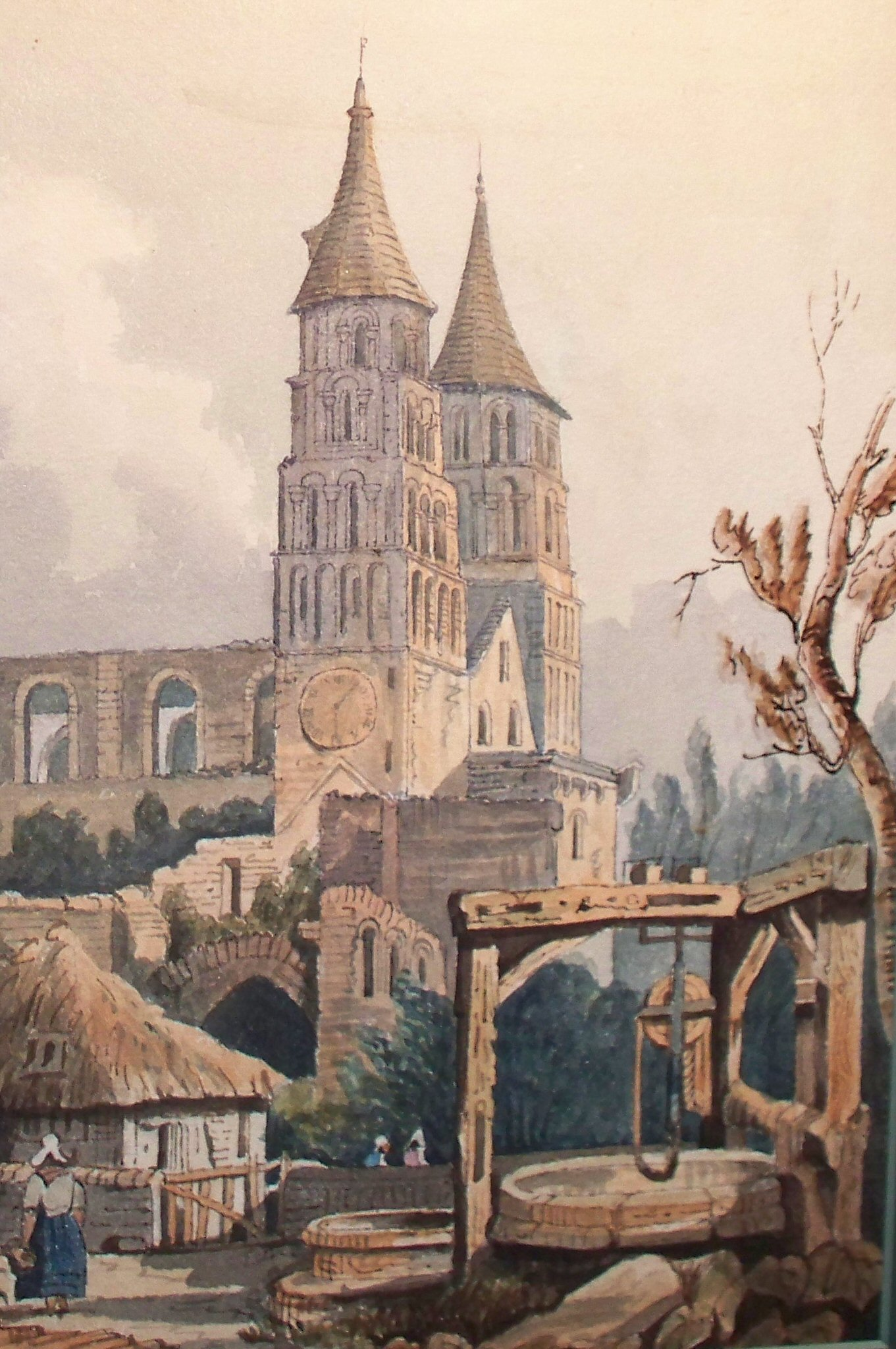 Abbey Church Ruins at Jumièges, Normandy, France